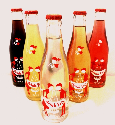 Soft drink bottles, 1956